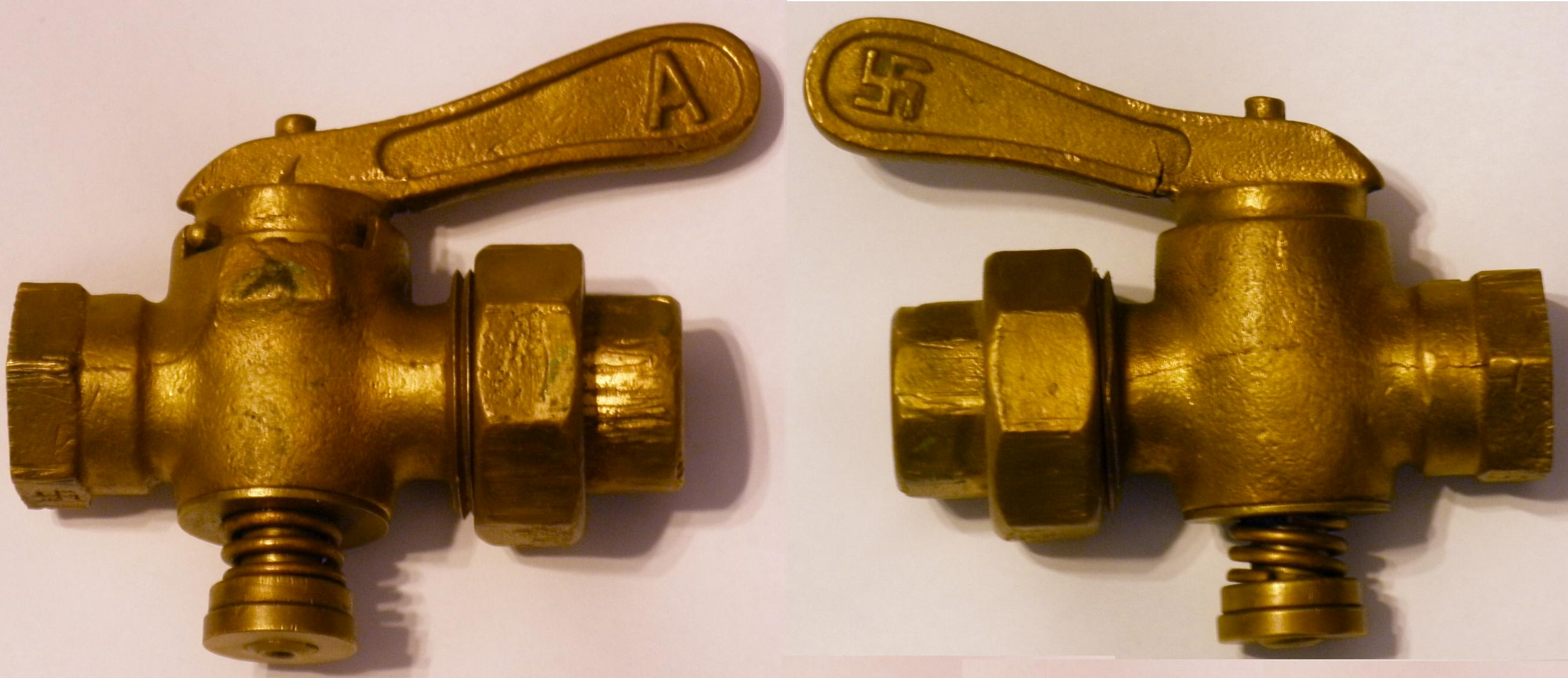 Hoover Dam gate valve with swastika